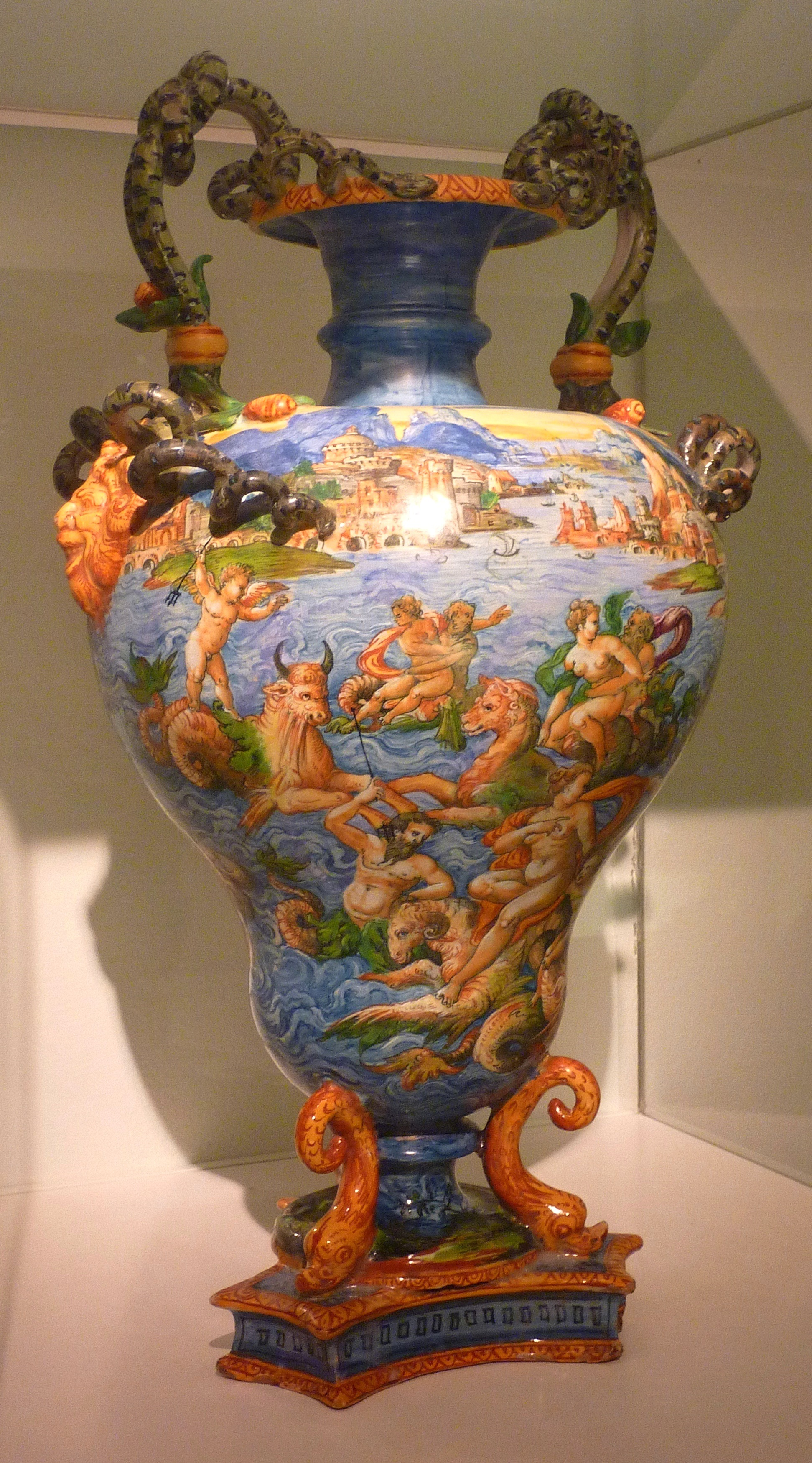 Amphora. Urbino maiolica